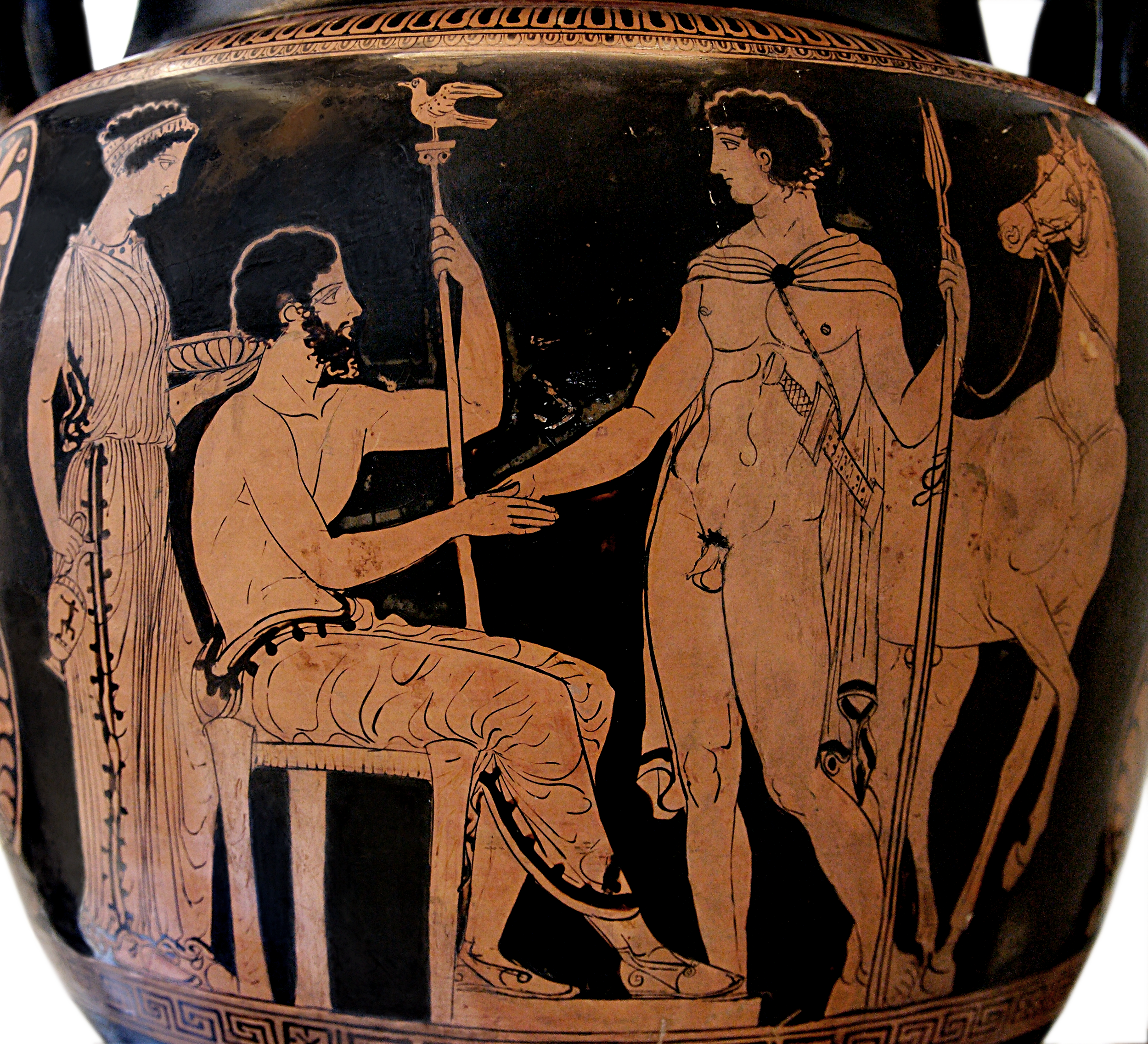 Arrival or departure of a young warrior or hero (maybe Theseus arriving at Athens and being recognized because of his sword by Aegeus). Apulian red-figured volute-krater, ca. 410–400 BC. From Ruvo (South Italy). The original image was photographed and uploaded by Marie-Lan Nguyen (User:Jastrow), 2007. This version of the image has been digitally edited to reduce the glare and the background changed to solid white.